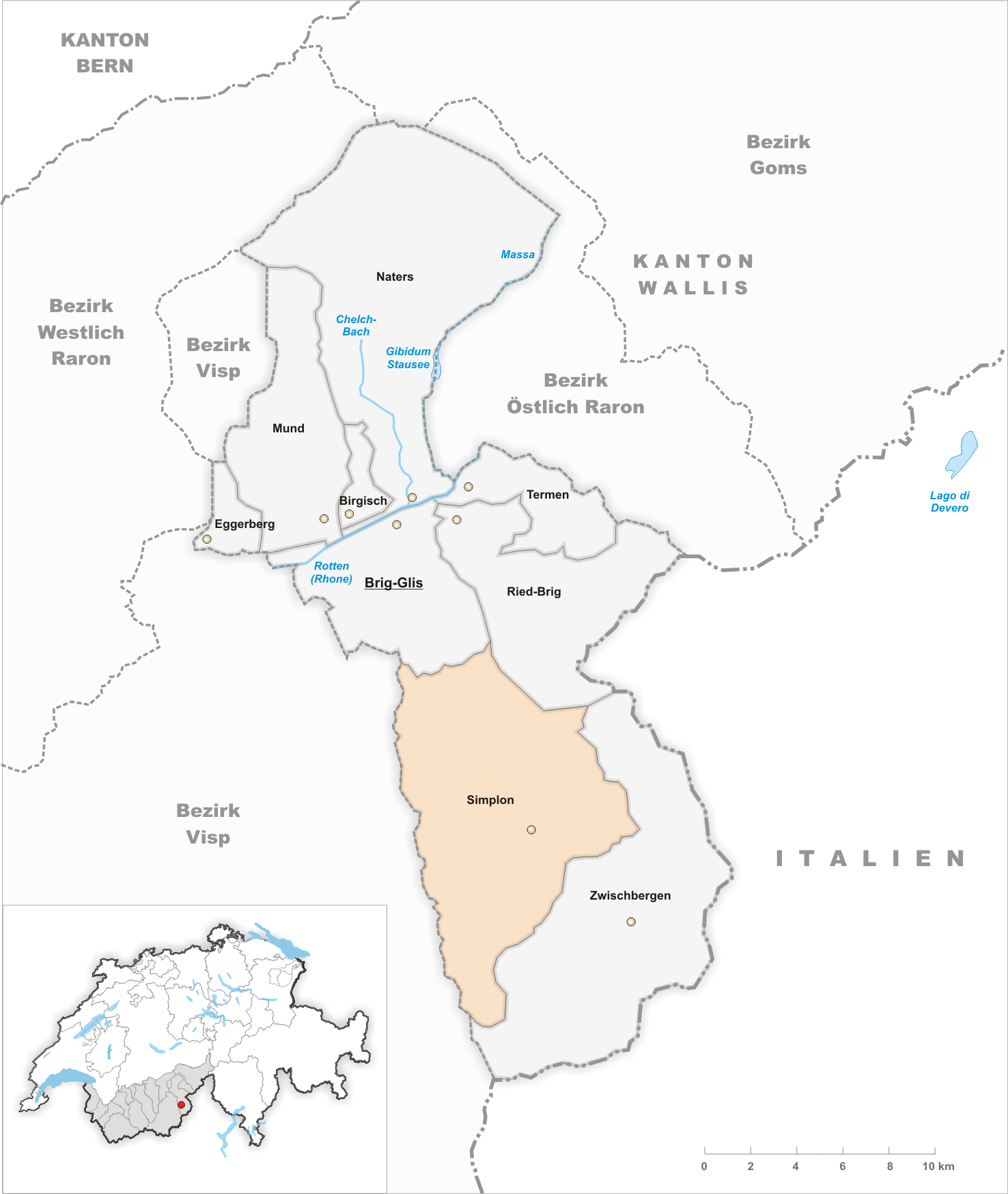 Municipality Simplon